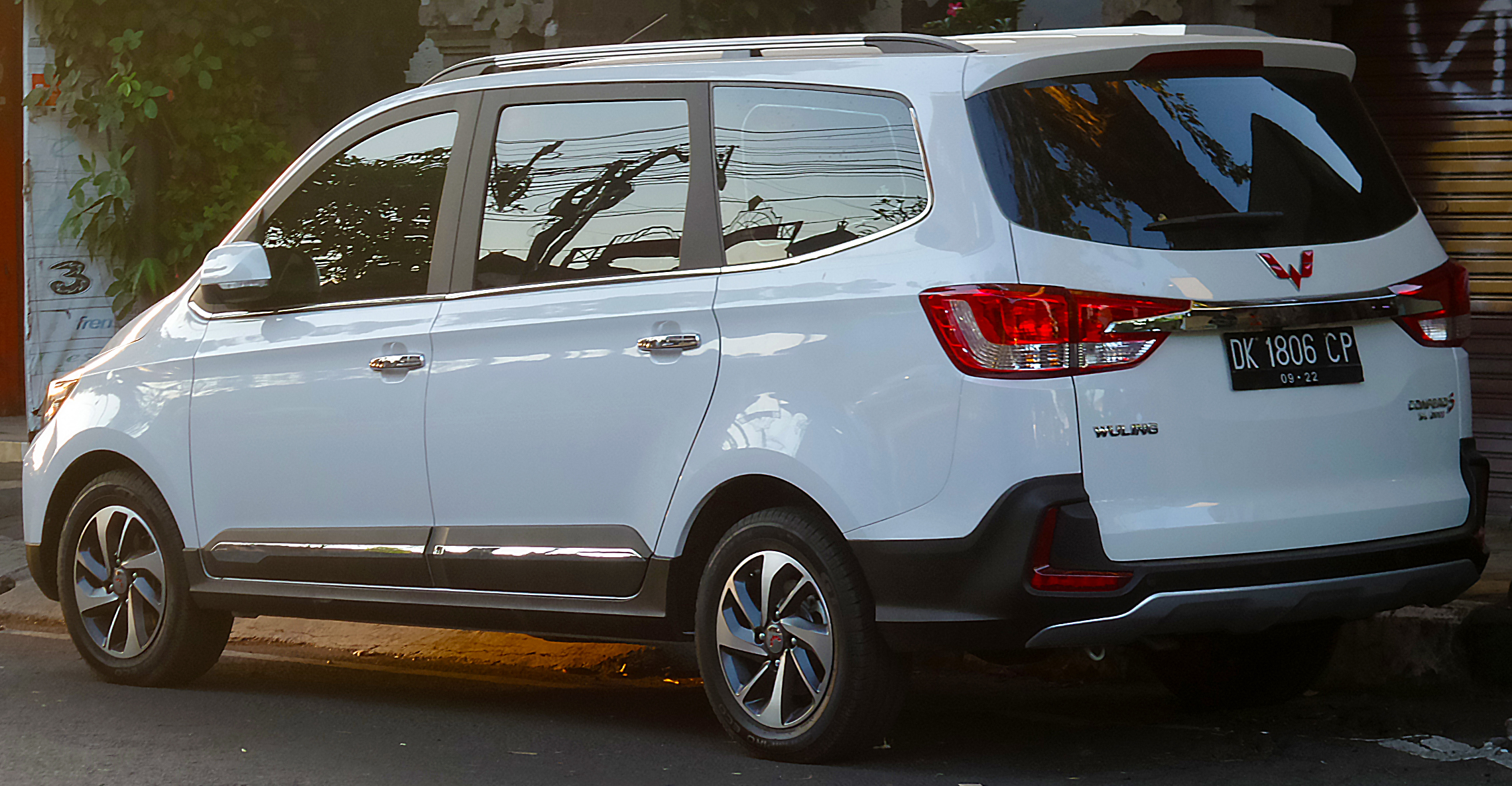 Wuling Confero, or Wuling Hong Guang in Mainland China, in Denpasar, Bali.